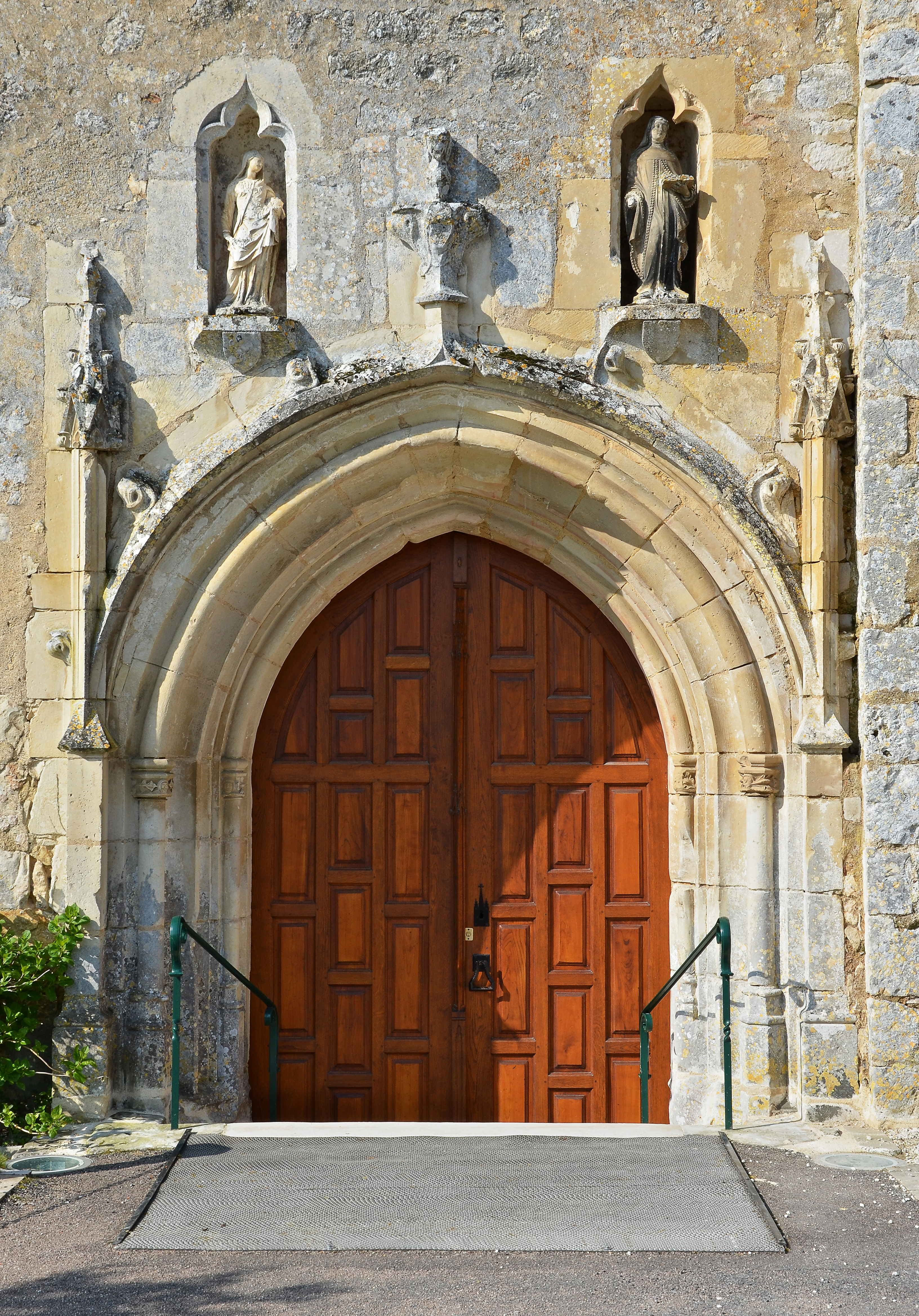 Church portal (12th-15th centuries), Savigné, Vienne, France.